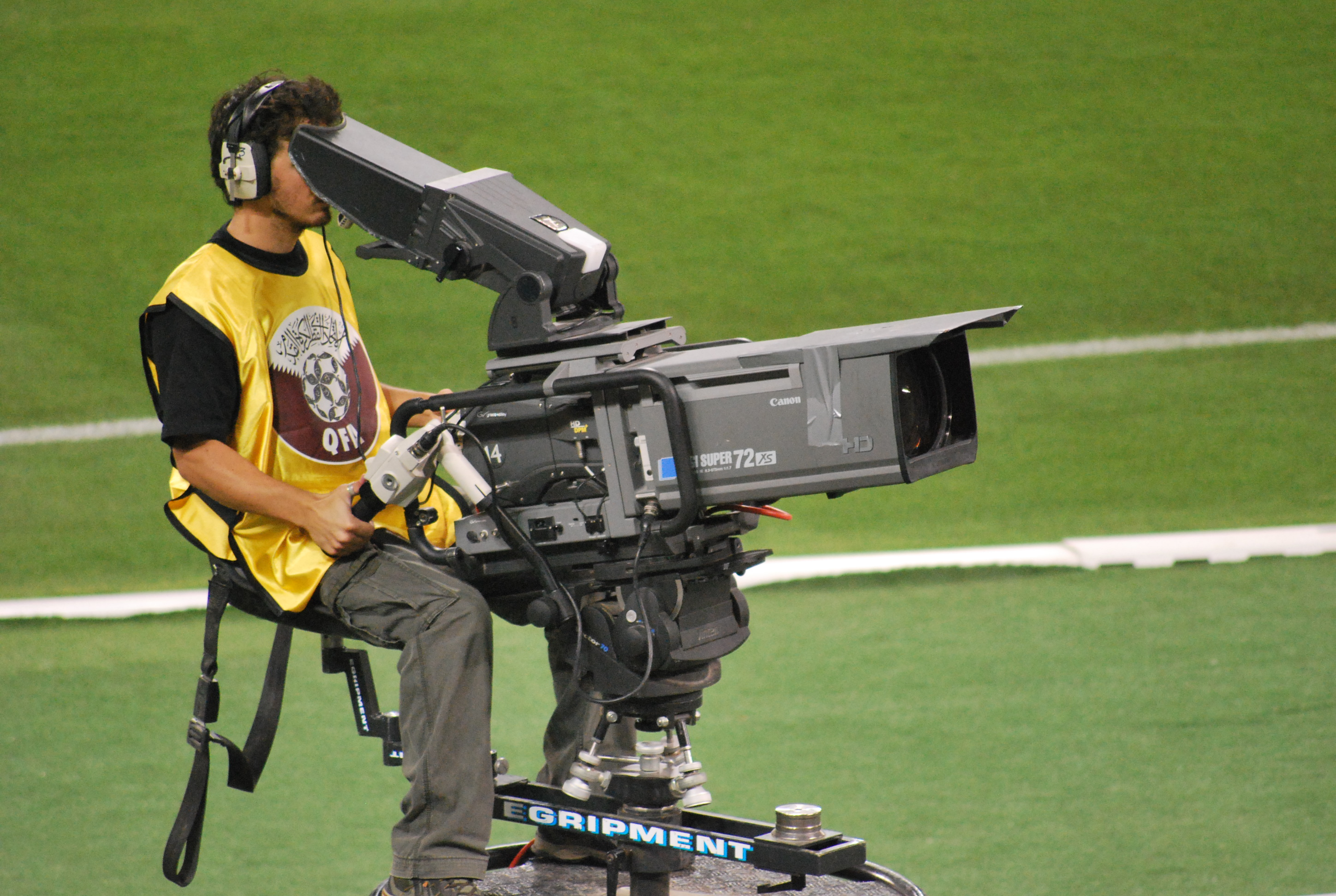 DSC_0302 2009 Emir of Qatar Cup Final.